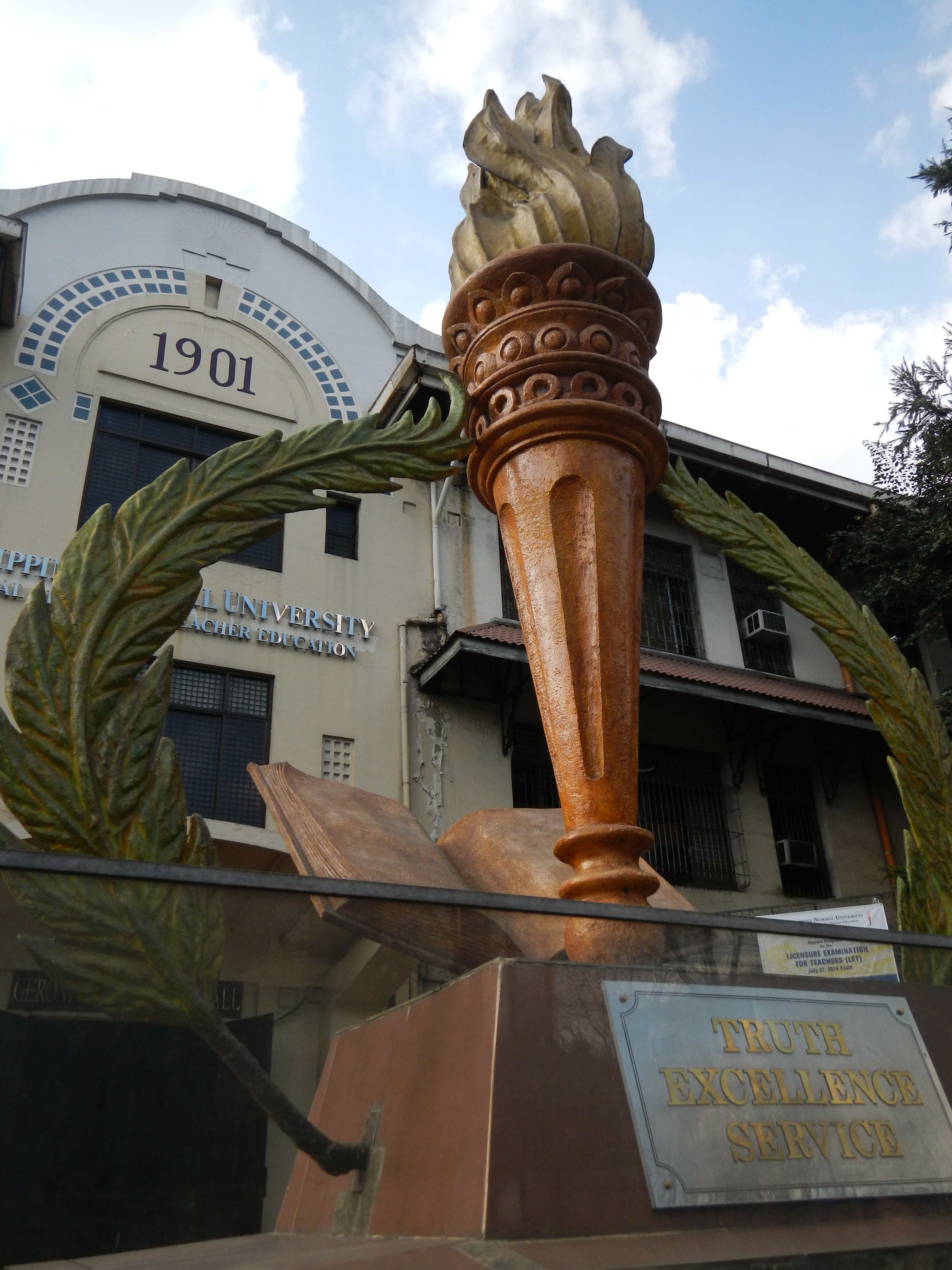 Upload Wizard photos of - a) Philippine Normal University [1] of 1901